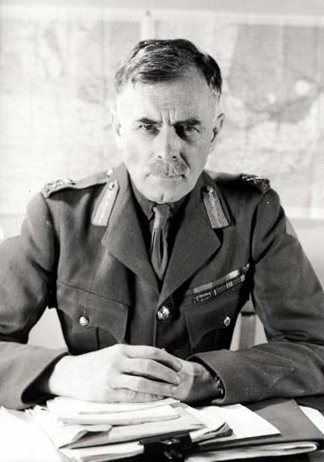 Lieutenant-General Andrew G. L. McNaughton, March 1942. Department of National Defence / National Archives of Canada, PA-132648.